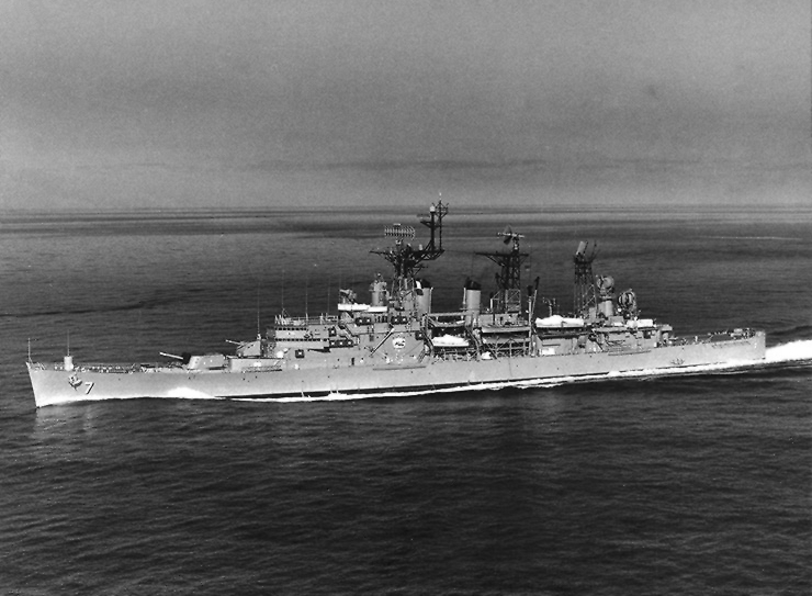 The U.S. Navy guided missile cruiser USS Springfield (CLG-7) underway. She received two new radars in 1964, SPS-37A (foremast) and SPS-30 (main mast). The SPS-42 (aft) was replaced by SPS-52 in 1967.